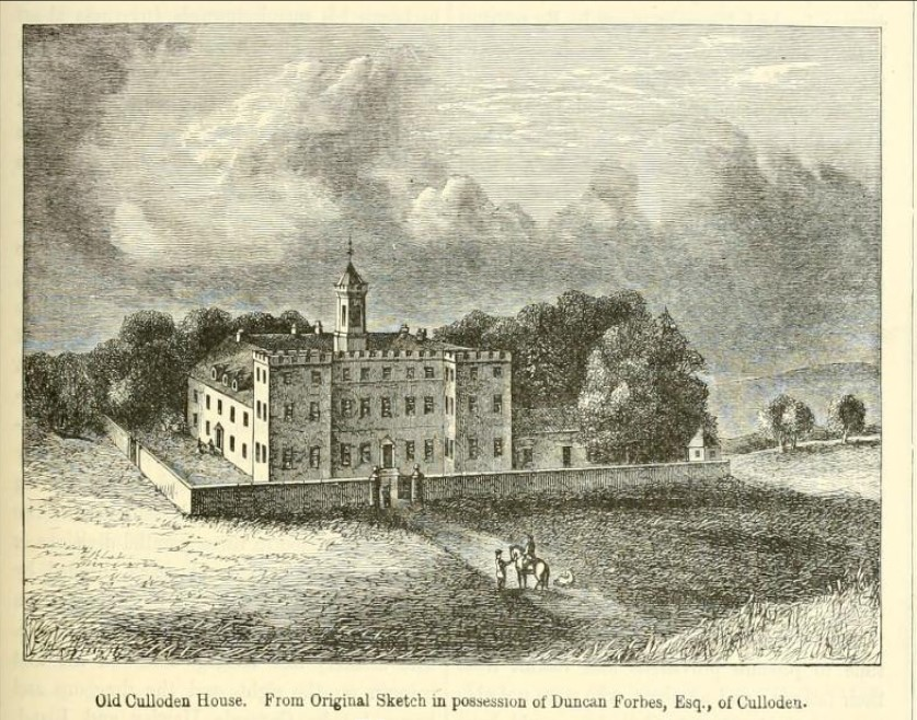 Old picture of Culloden House, Inverness-shire as it appeared in the 18th century. The building has since been completely remodeled.